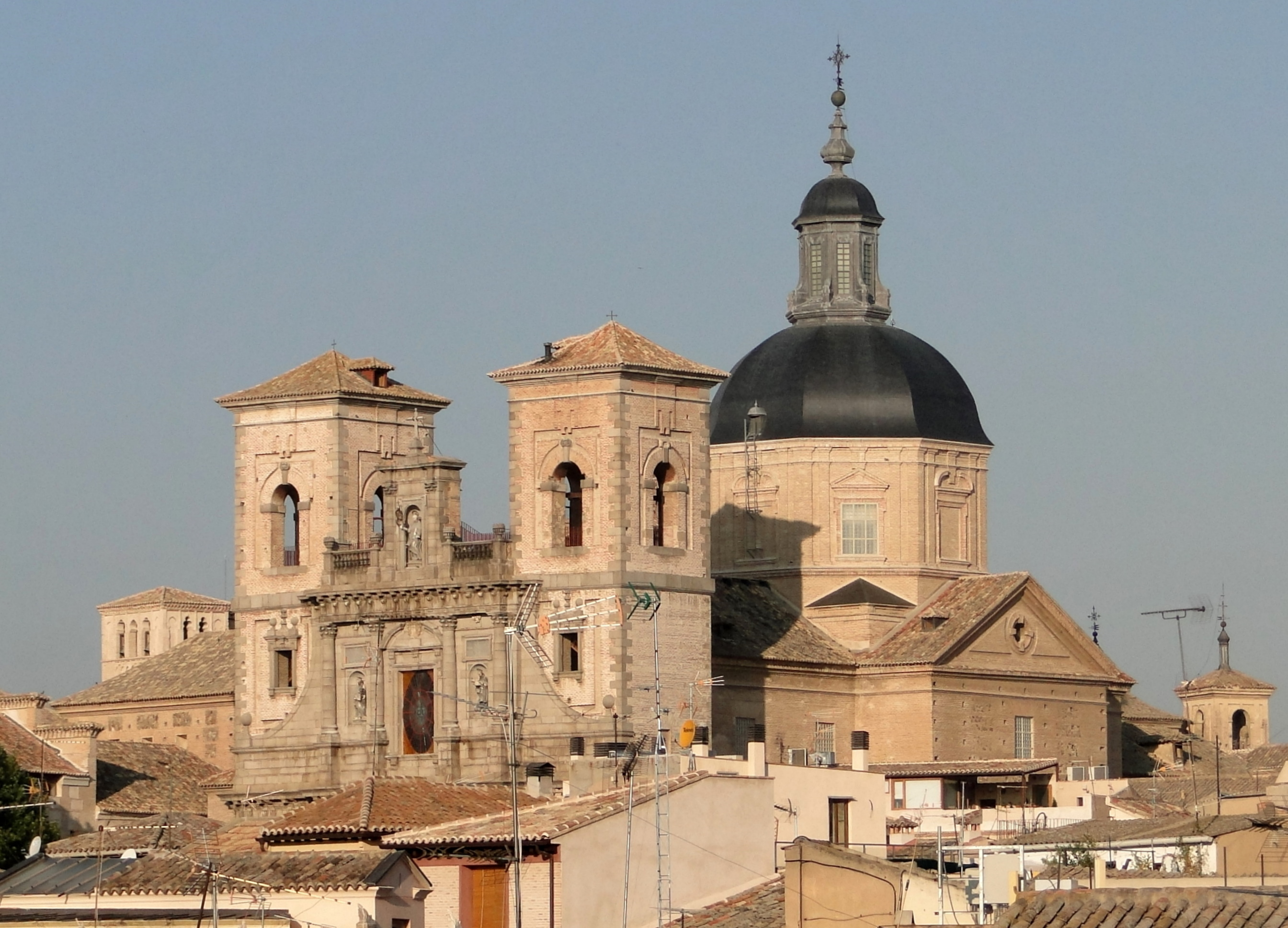 Church of San Ildefonso, Toledo, Spain